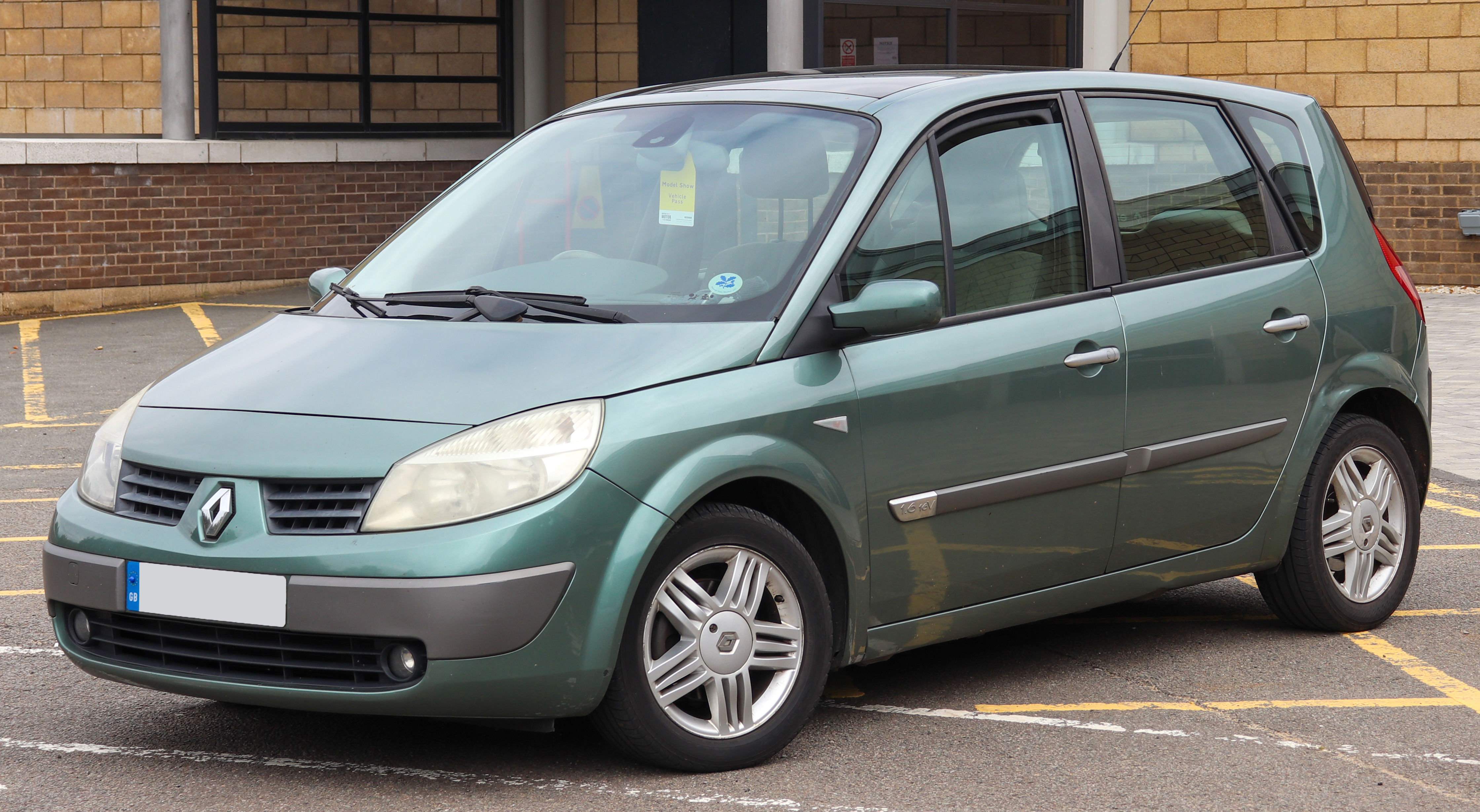 2004 Renault Scenic Privilege 16V Automatic 1.6 Front Taken at the British Motor Museum, Gaydon